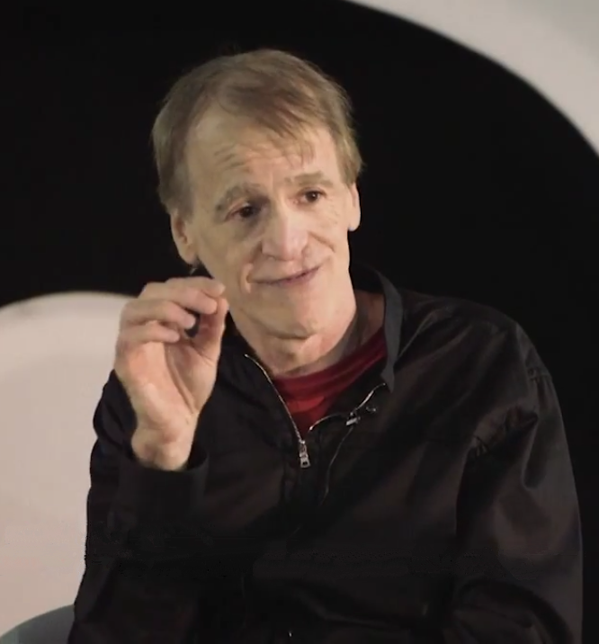 Richard Zenith in Óbidos, 2016